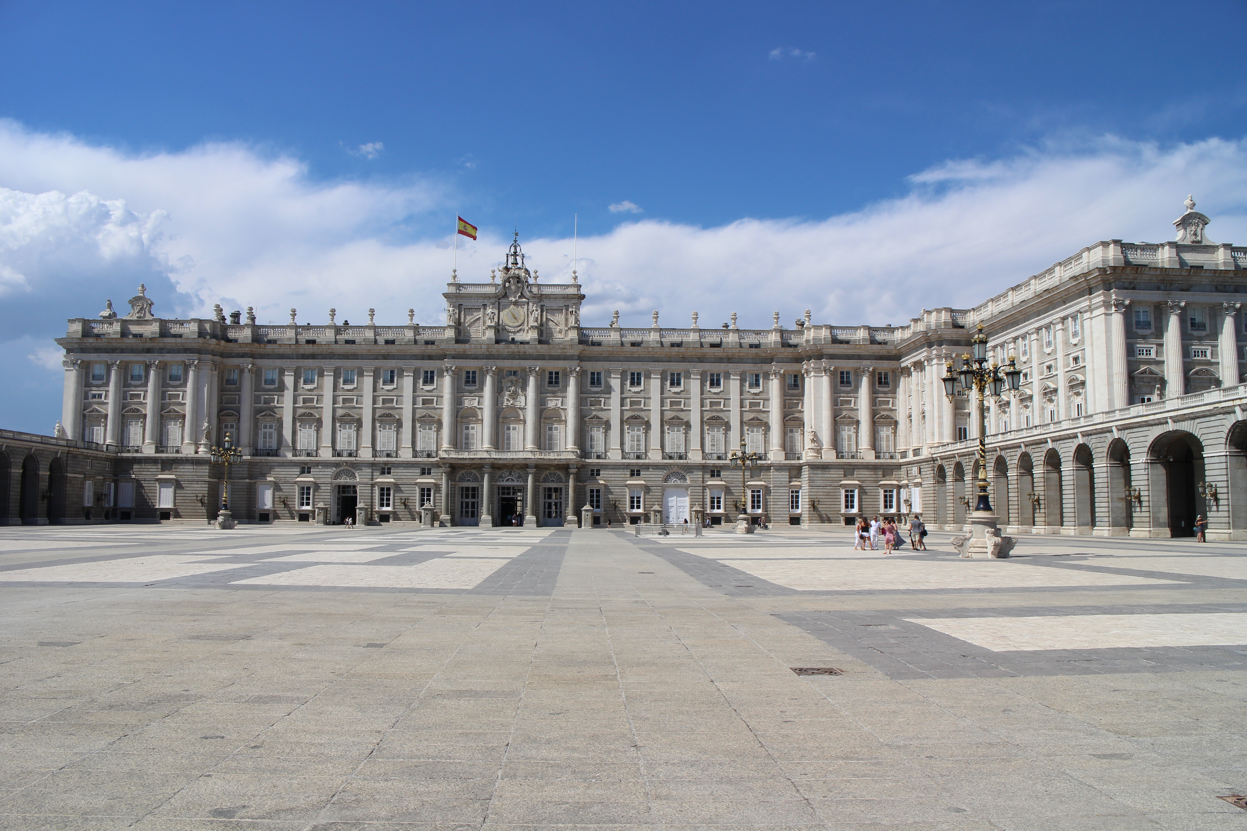 South facade of the Royal Palace of Madrid